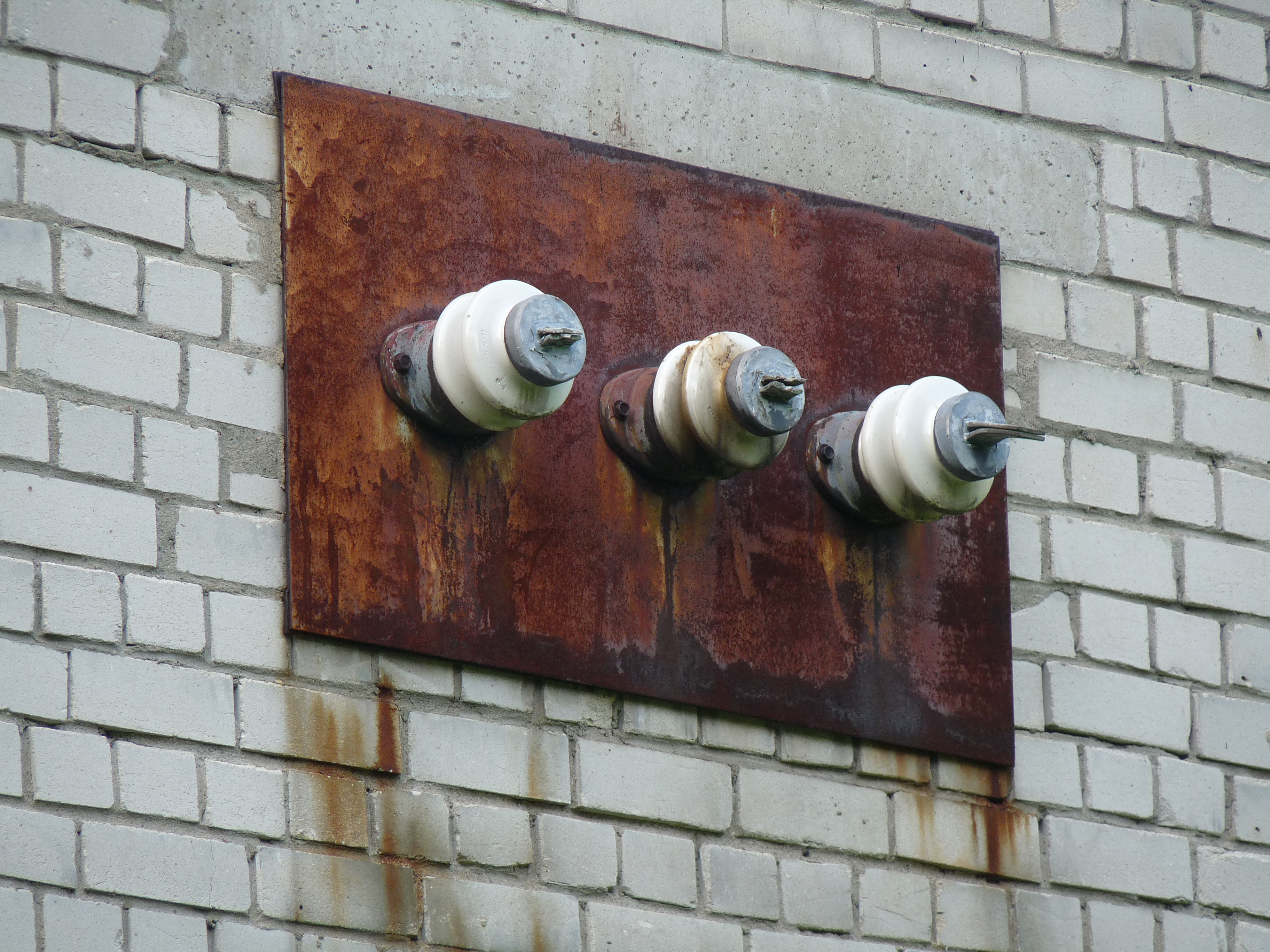 Old insulator, saved from Soviet times. Nowadays doesn't work.